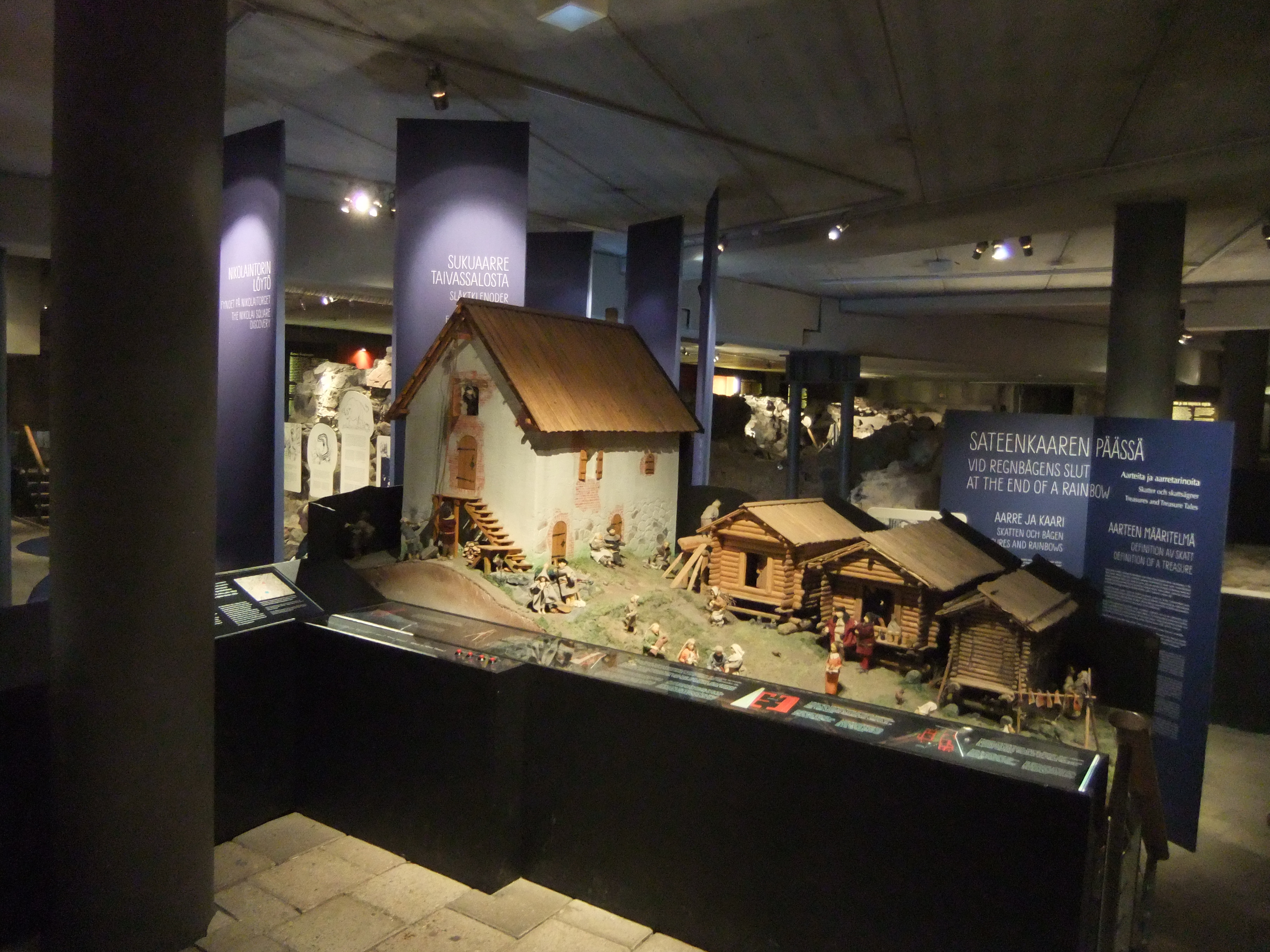 A miniatyre model of a Medieval townhouse in Aboa Vetus & Ars Nova Museum in Turku, Finland.